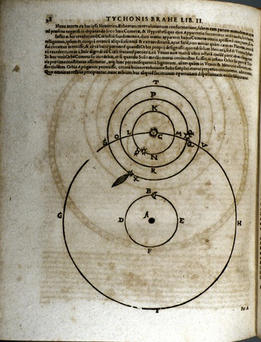 The path of the comet Tycho Brahe saw in 1577.